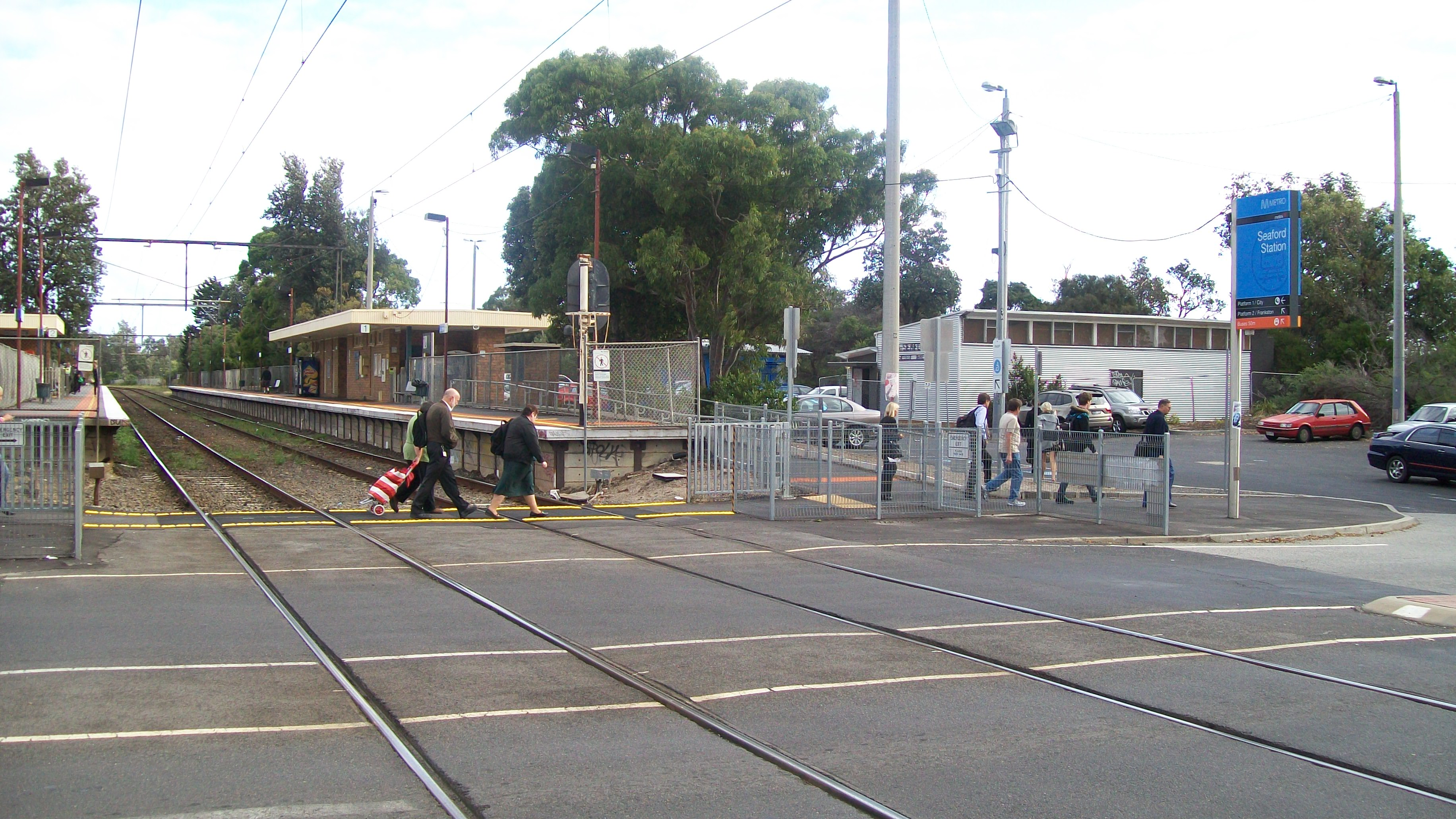 Seaford railway station, Melbourne